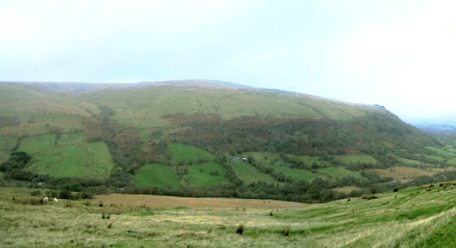 South side of Fan Bwlch Chwyth. As seen looking north from the road as it crests Llethr down into the Senni valley.